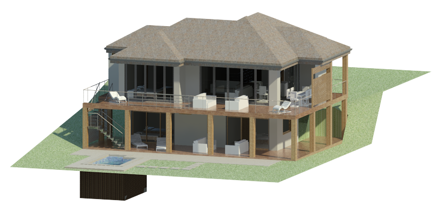 Rendering : Modelling example in Revit 2015